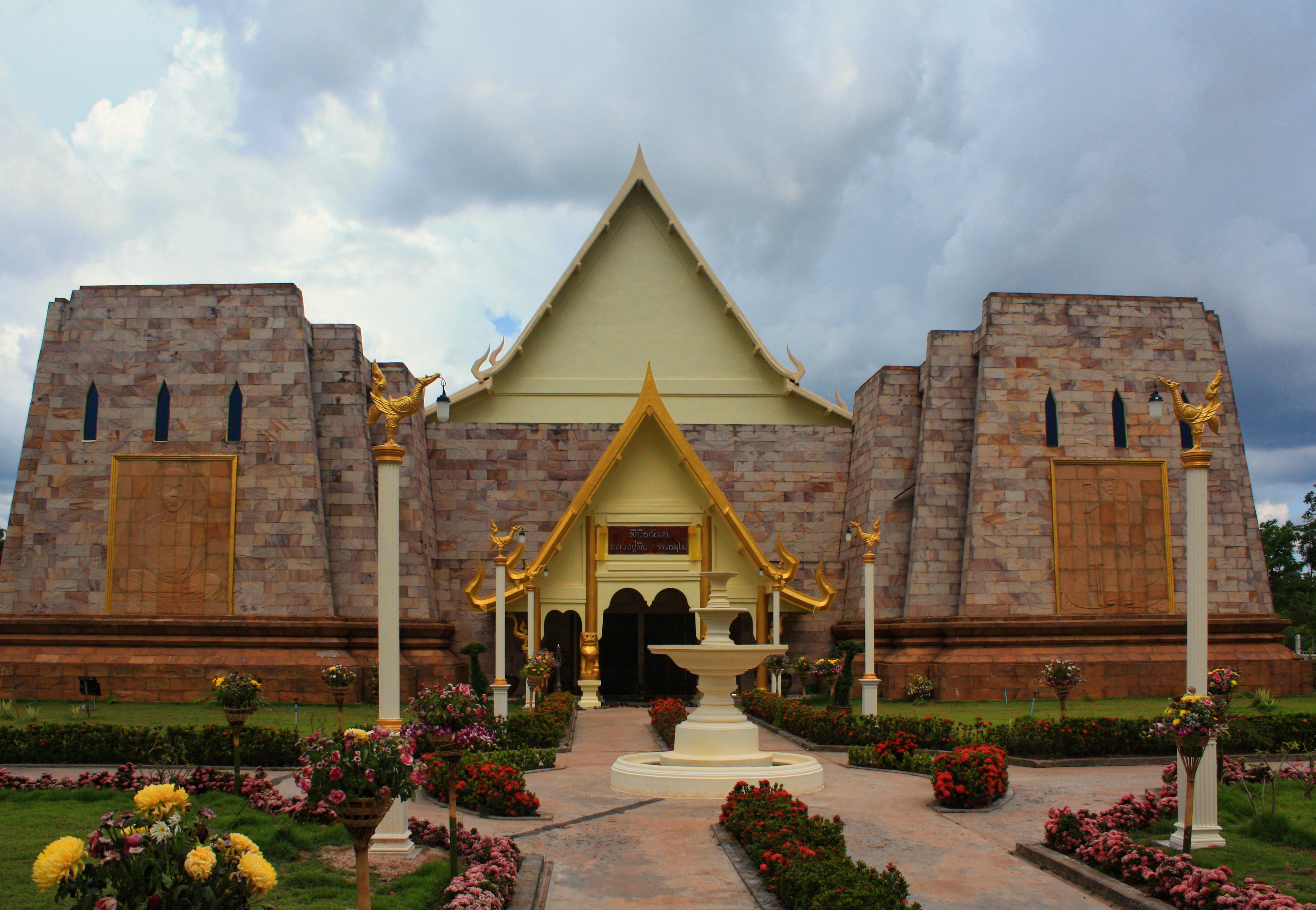 Wat Aranyawiwake, Si Songkhram district, Nakhon Phanom district, norteastern Thailand